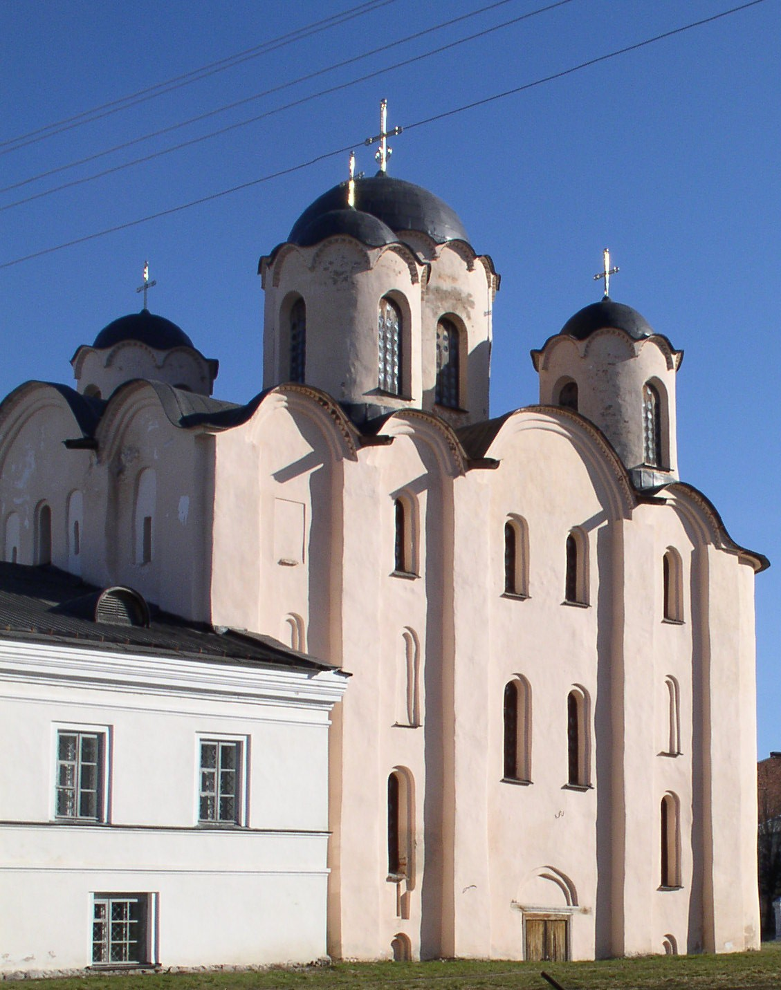 St. Nicholas Cathedral, Velikiy Novgorod, Russia